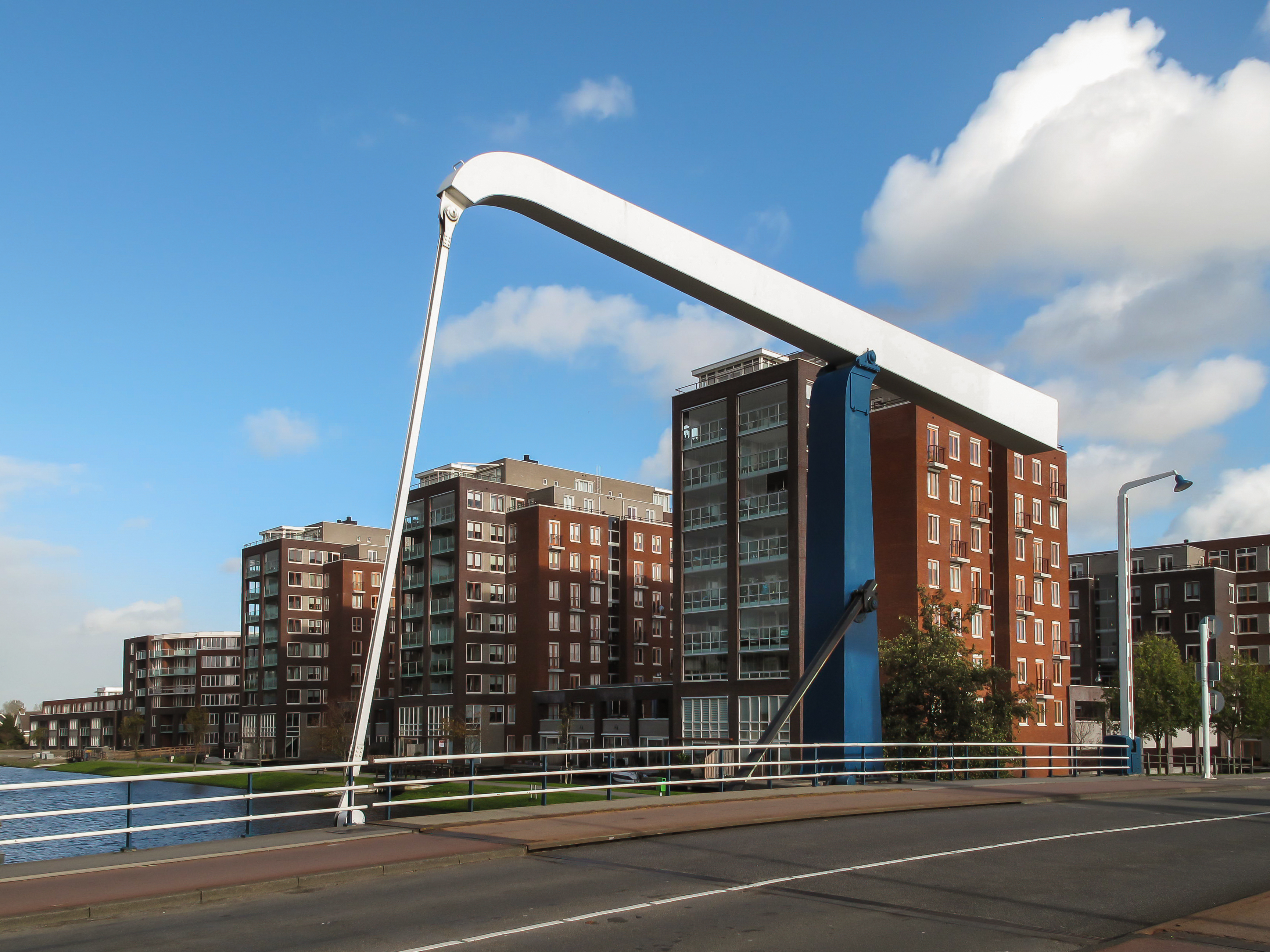 Rijnsburg, drawbridge and modern living houses